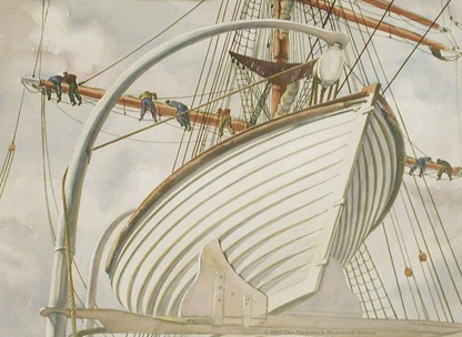 Watercolor: Lifeboat by Yngve Soderberg